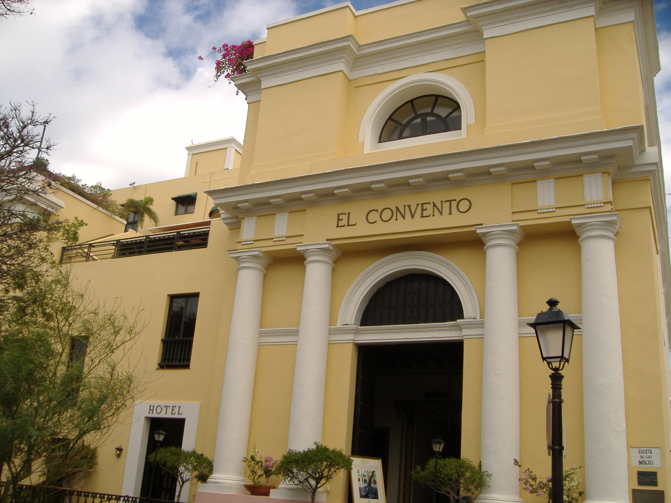 Front view of the El Convento Hotel in San Juan.